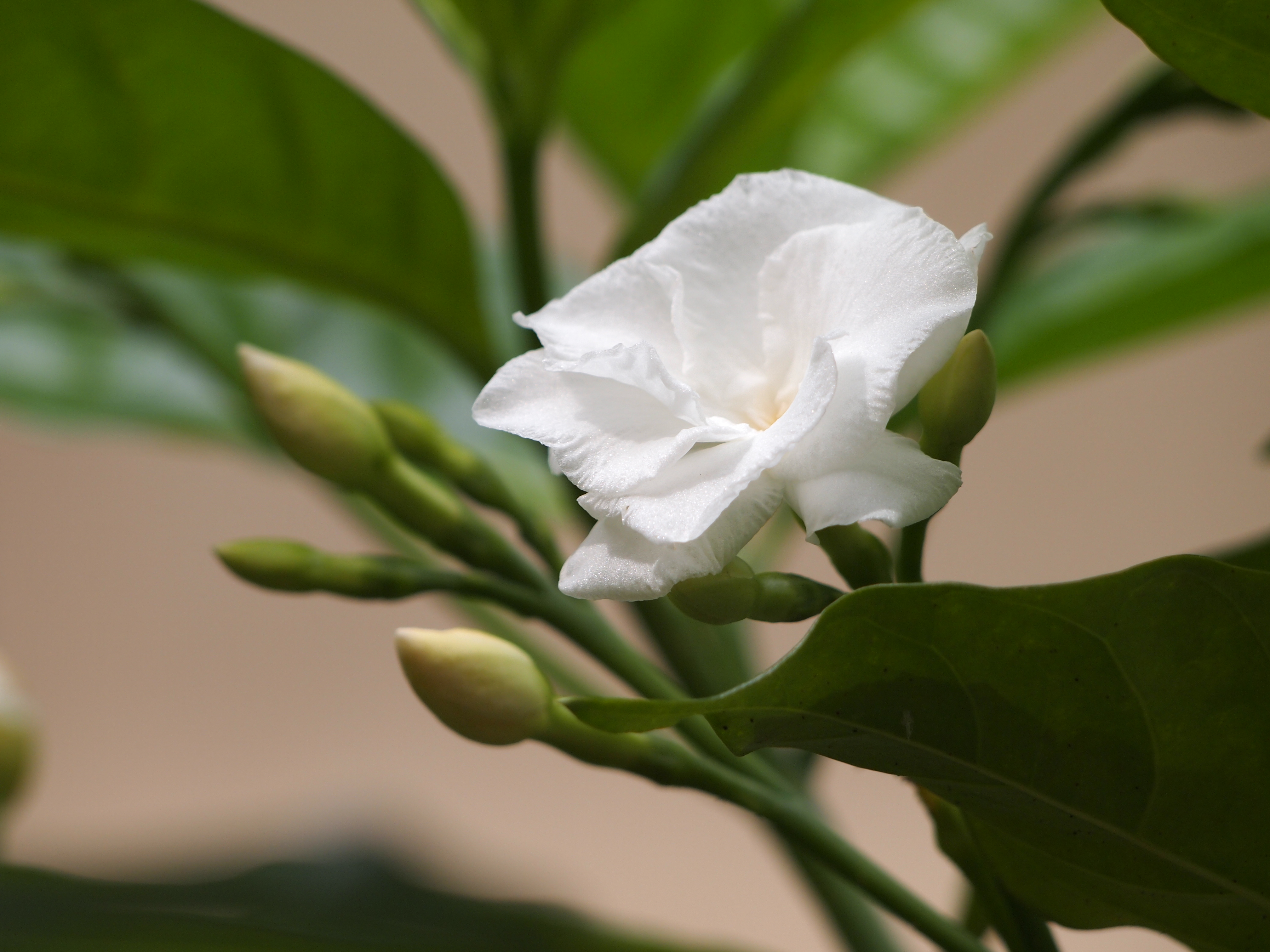 Jasmine (Melur) at Sepang, Malaysia